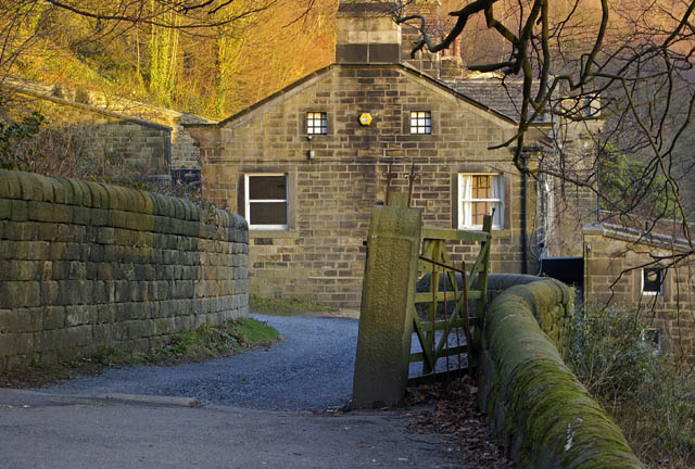 Lumb Bank - The Ted Hughes Arvon Centre Lumb Bank is an 18th century mill owners house was once the home of poet Ted Hughes. Today it is owned by the Arvon Foundation who run residential creative writing courses.